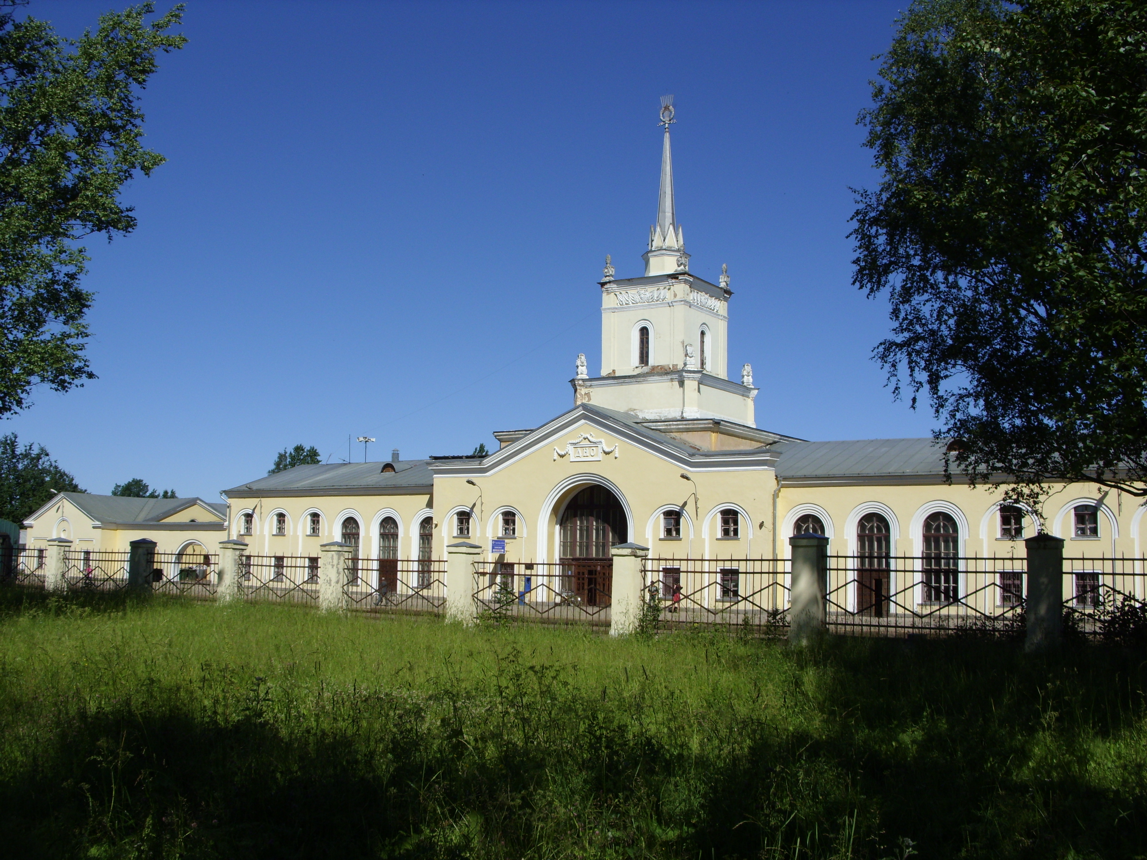 Dno_Vokzal-1